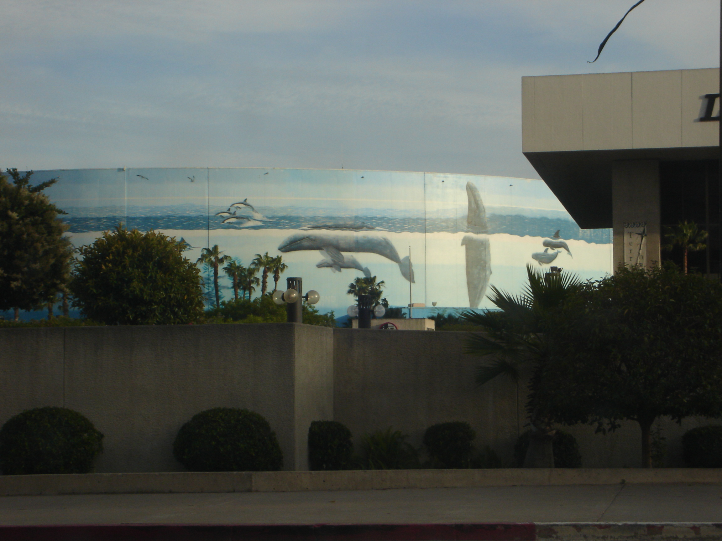 Long Beach Convention Center showing a portion of the Wyland Whaling Wall